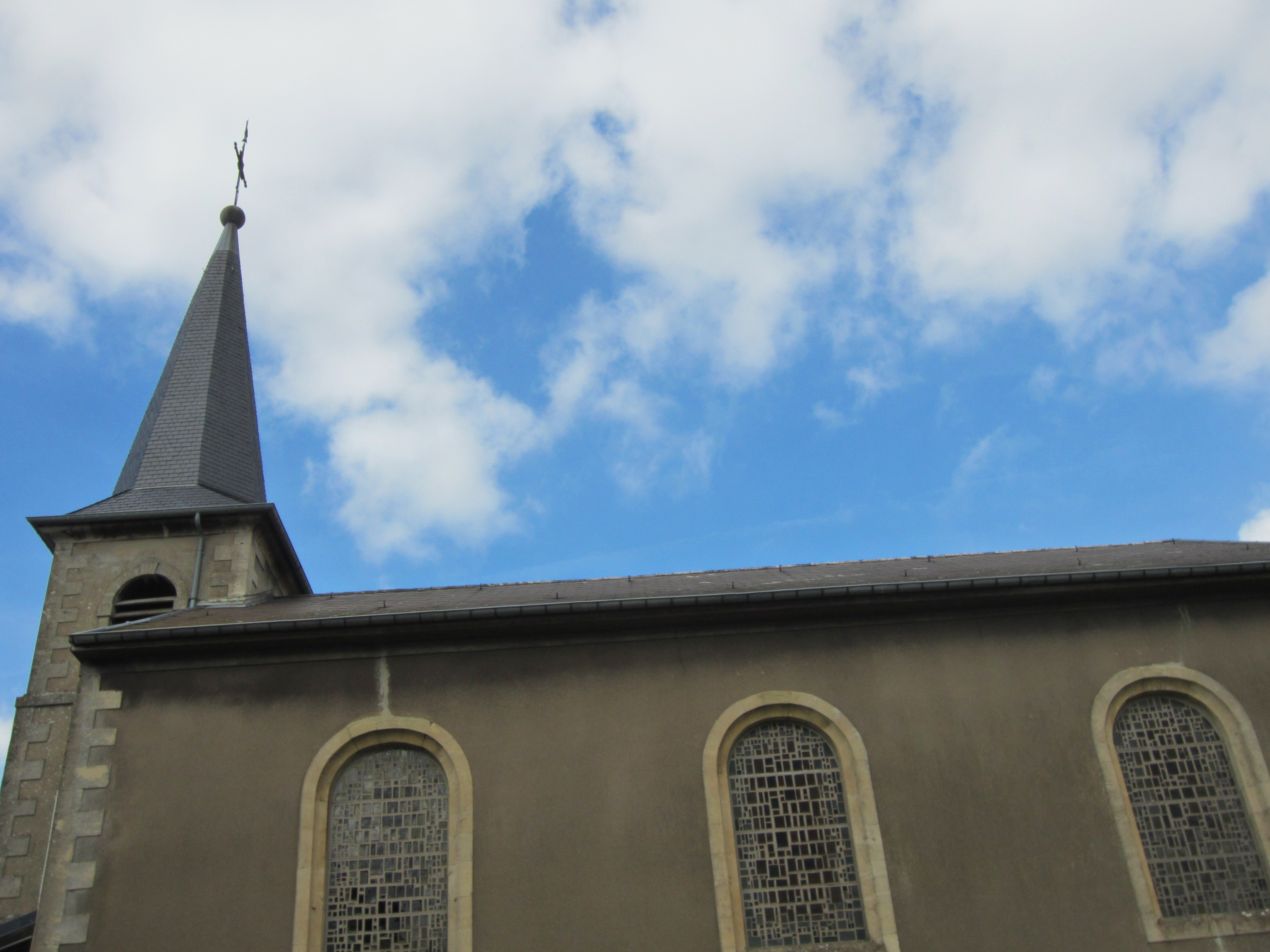 Description eglise Russange Date24 September 2011Sourcemon appareil photoAuthorAimelaimePermission(Reusing this file) eglise Russange